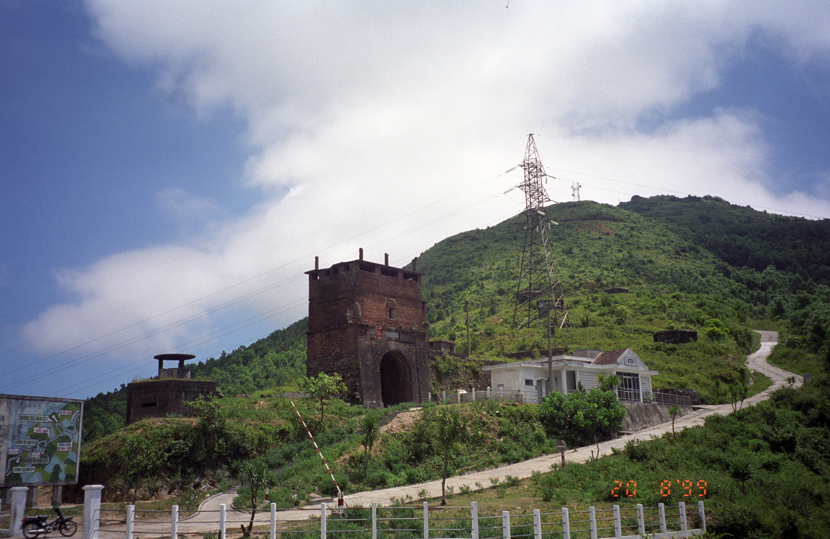 looking up the side of the mountain at the ruins of the old american base.